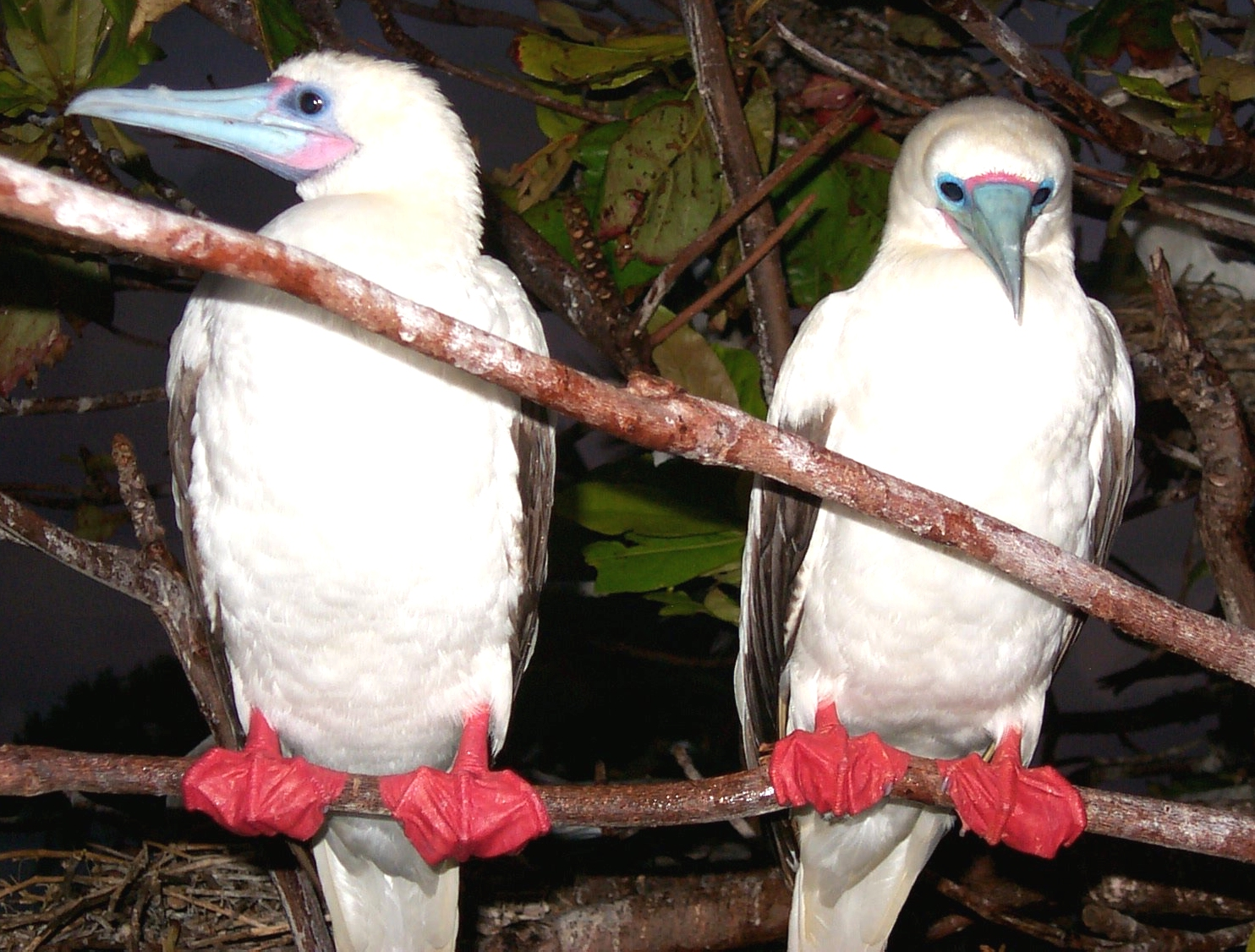 Red-footed Boobies nest within small trees during the night. Note the vivid red colouring of the legs and webbed feet. These adults have characteristic pale blue and pink facial markings. Coral Sea islands, Australia.